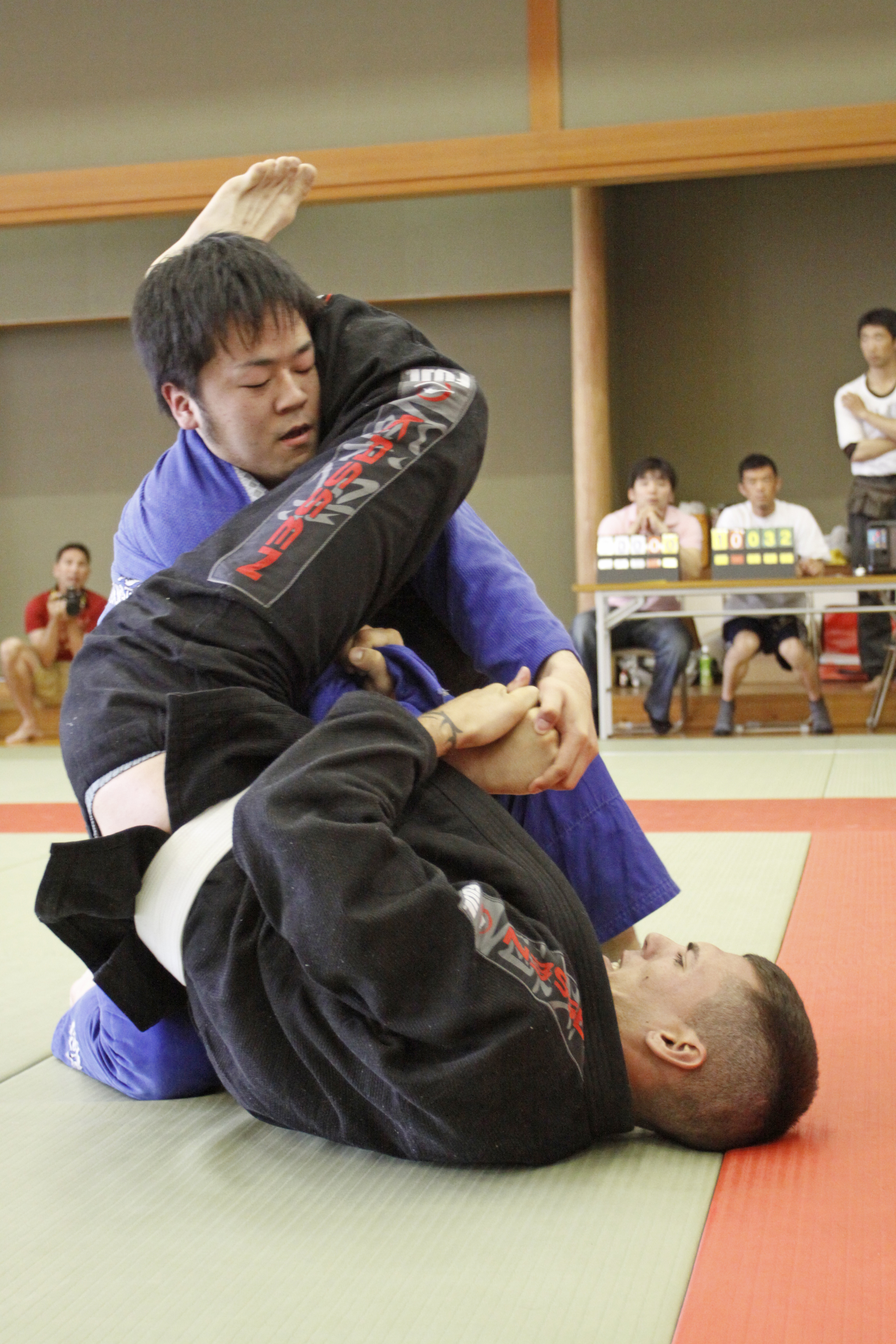 Benjamin Cosgrove, whitebelt competitor, wraps his opponent’s gi around his arm to execute an armbar during the 4th annual Chugoku-Shikoku Jujitsu Championship at the Hiroshima Minami Ward Sports Center, June 6.